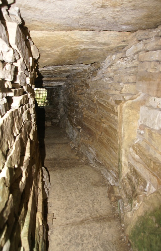 Taversöe Tuick Chambered Cairn, Rousay, Orkney, Scotland. Interior of the entrance passage to the lower chamber.